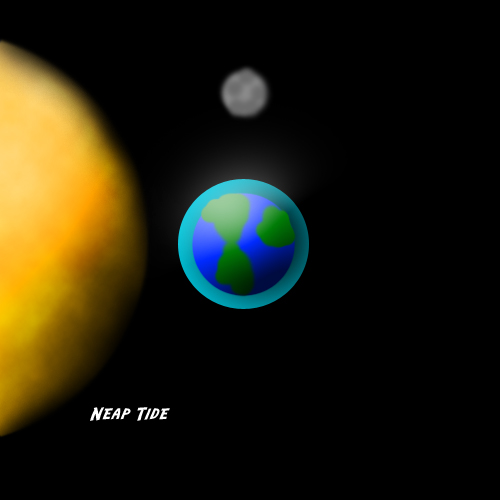 Neap tide.